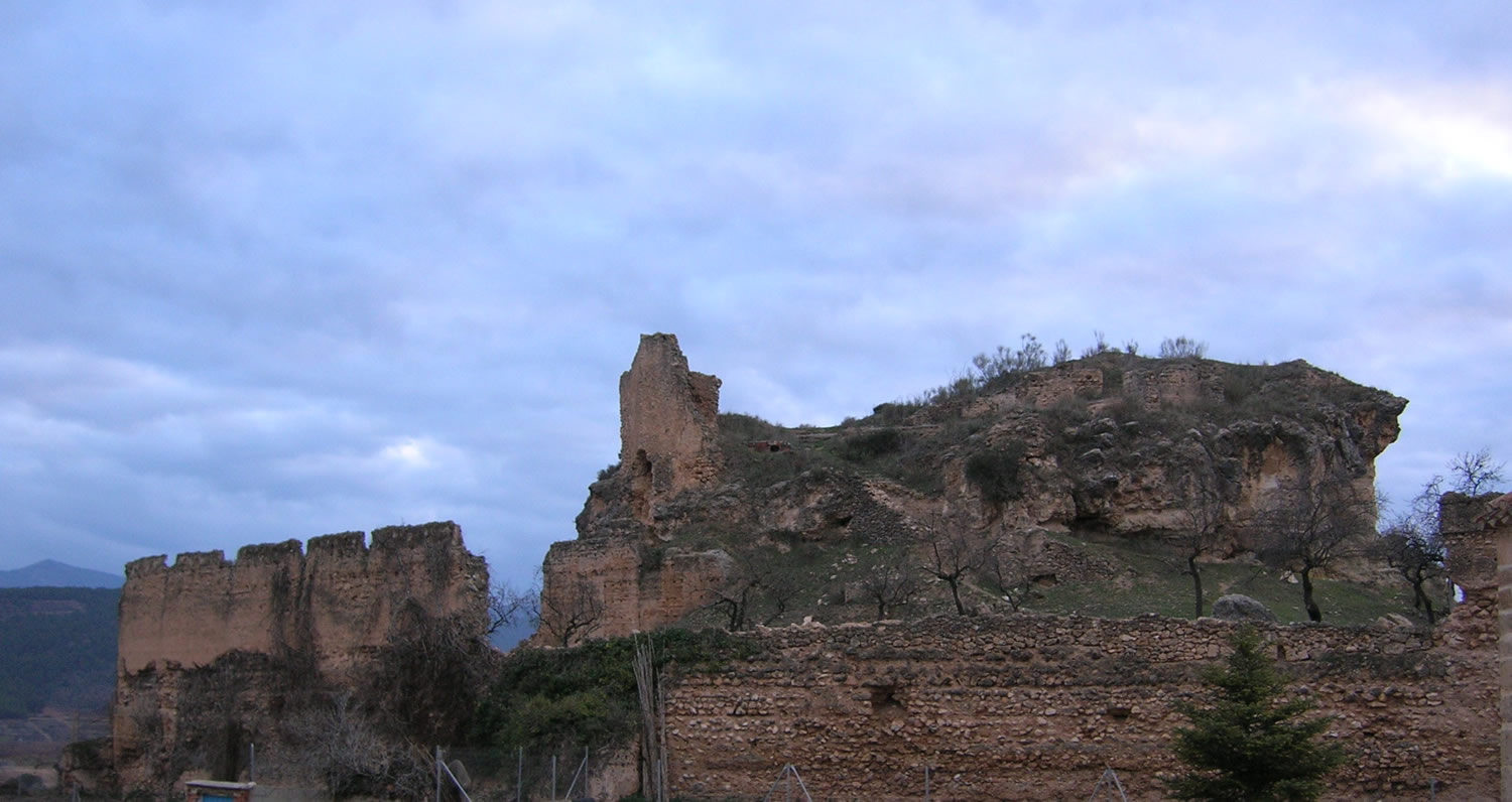 Socovos-Albacete-Spain. Castillo-Castle. Own work, given to Pd.